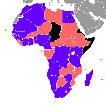 Africa Map w/o WS which is a disputed zone in 2019